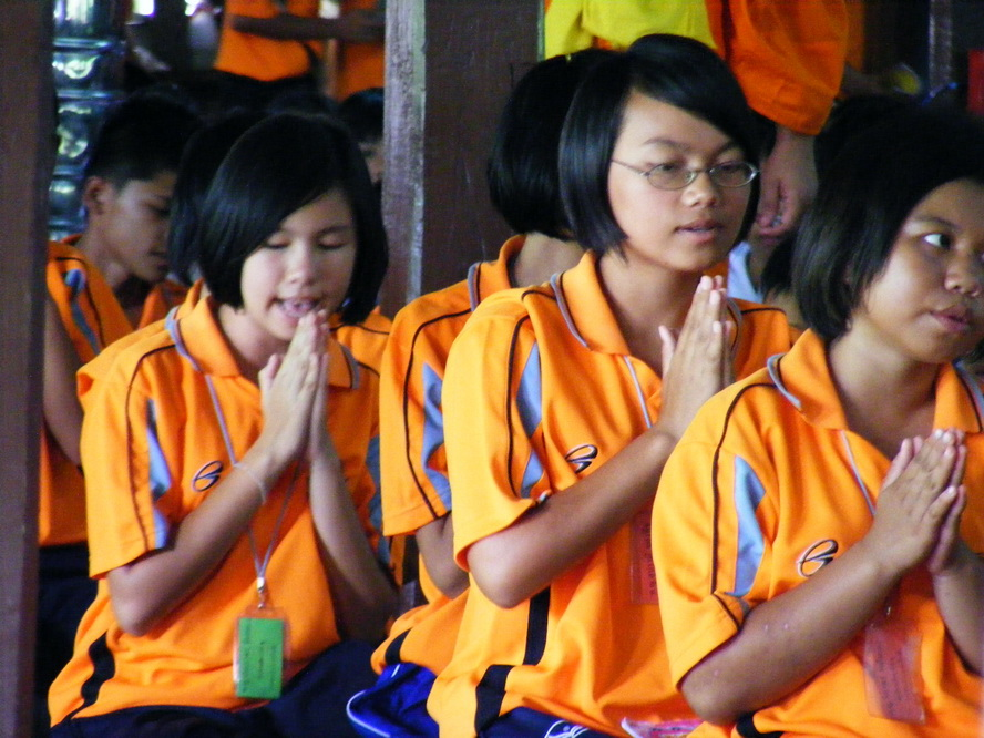 student in Ban Hat Suea Ten School in Wat Pa Kanun, Khung Taphao subdistrict, Mueang Uttaradit, Uttaradit Province, Thailand.